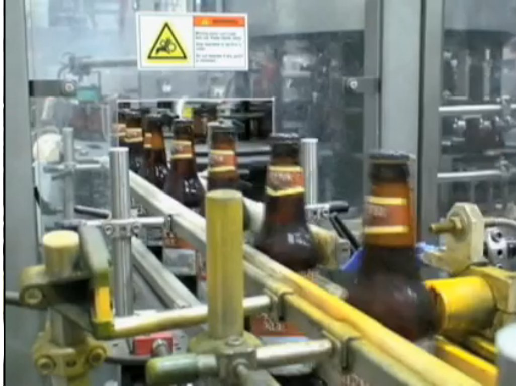 Screen capture showing the brewing line of the Otter Creek Brewing company.